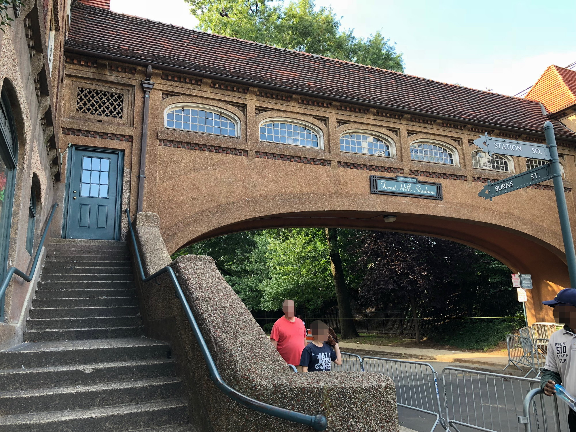 The way from Forest Hills Station Square to Forest Hills Stadium.